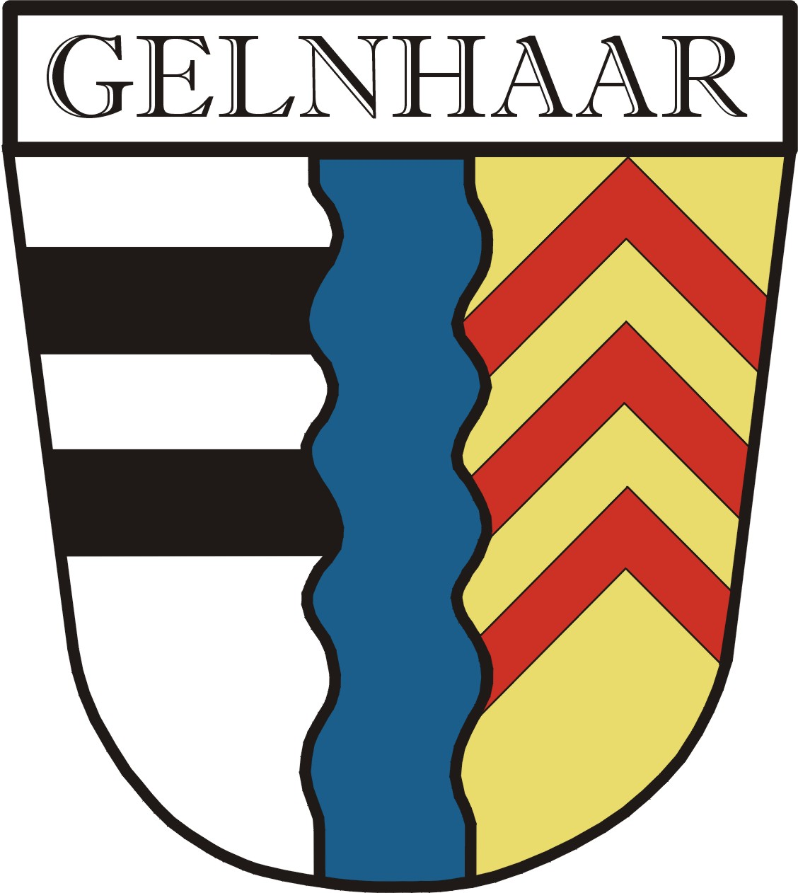 Coat of arms of Gelnhaar, Hessen, Germany